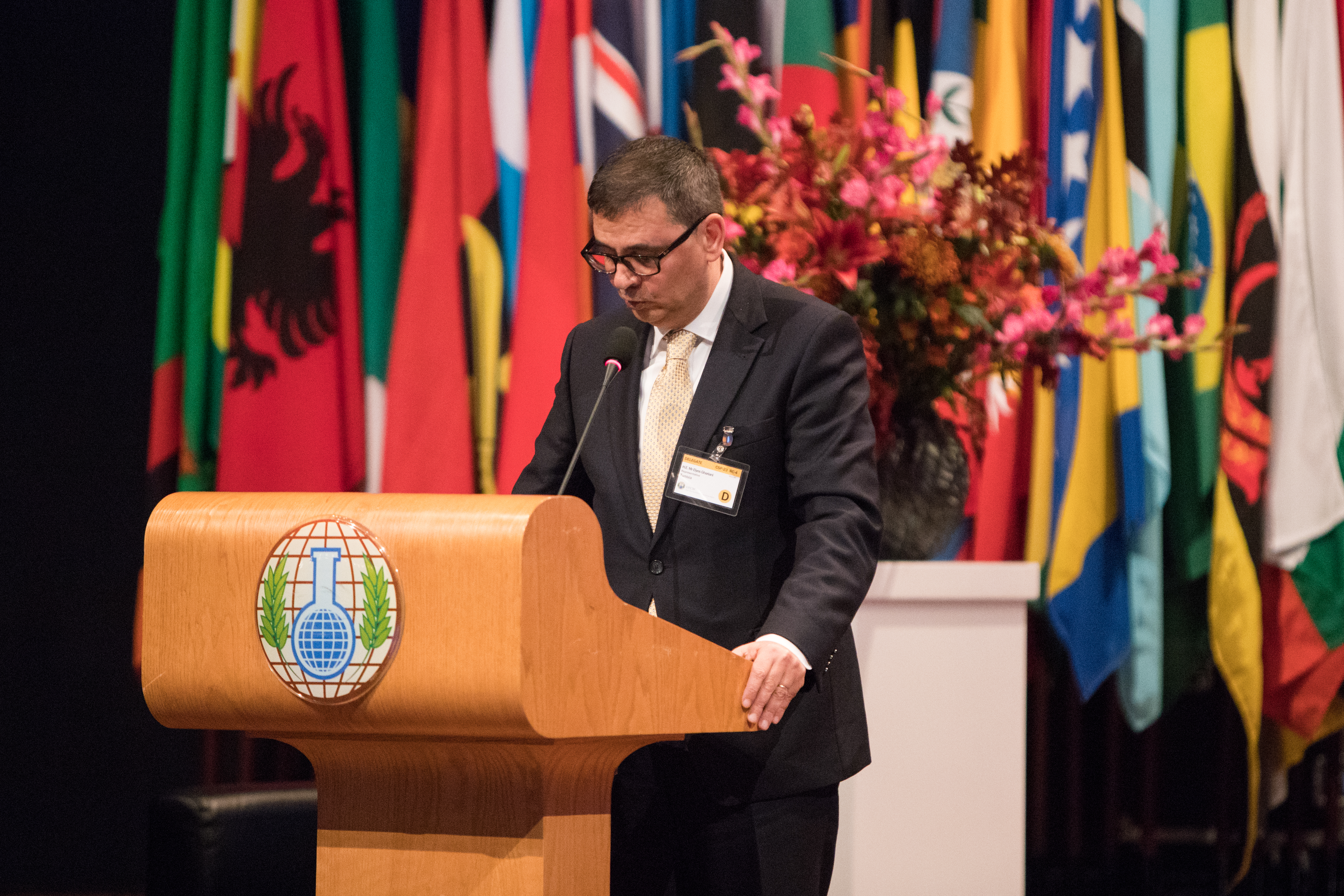 H.E. Mr Elyes Ghariani, Permanent Representation of Tunisia to the OPCW, speaking at OPCW's Fourth Review Conference. The Conference is held at the World Forum, The Hague, the Netherlands, from 21-30 November 2018.